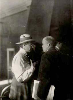 Yelena Stasova and Lenin at the 2nd Comintern Congress, 1920